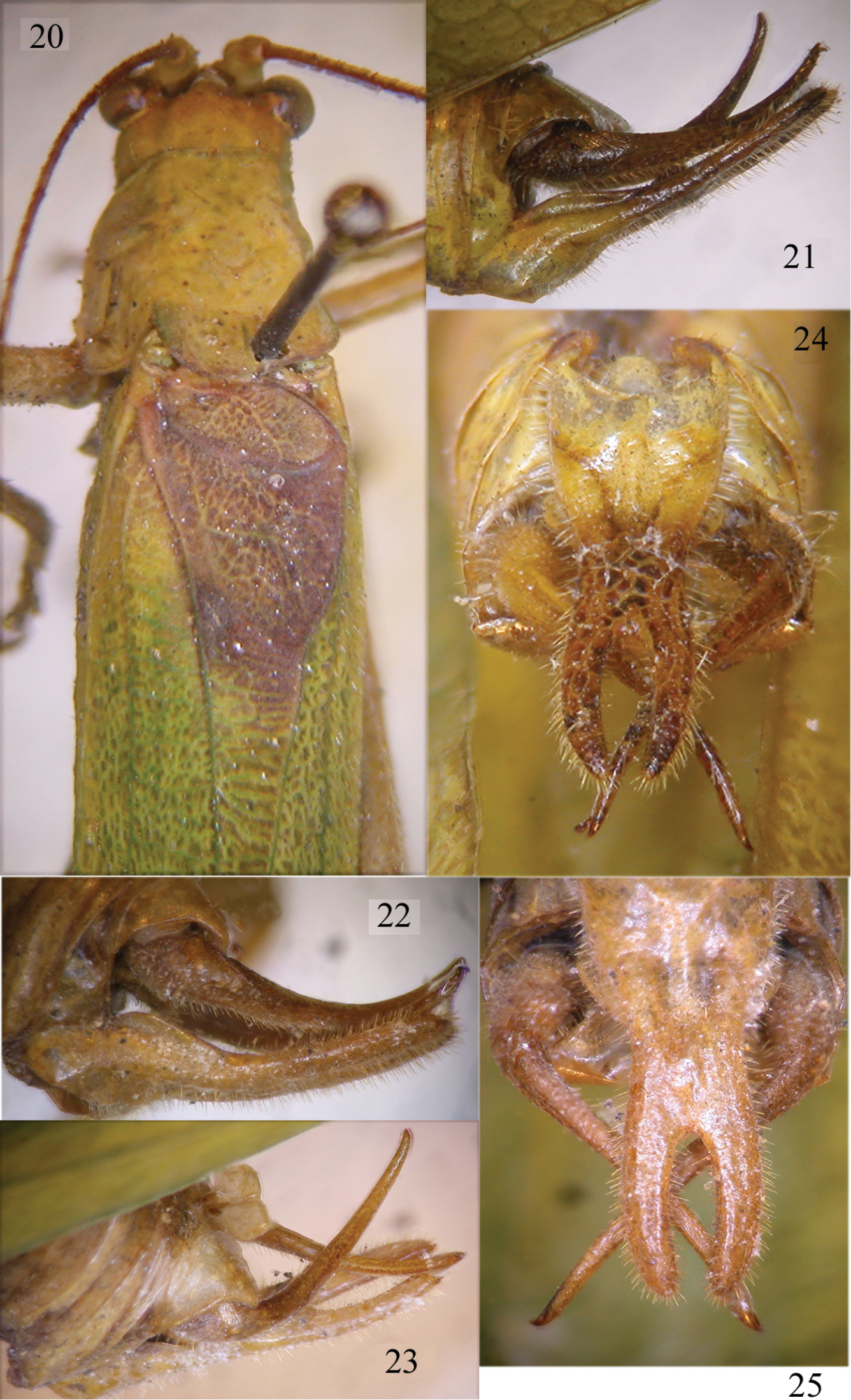 Melidia claudiae sp. n. Head, pronotum and tegmina of holotype from above (20), lateral view of cerci and sub-genital plate of holotype (21–22) and paratype (23), ventral view of the sub-genital plate of the holotype (24) and paratype (25).